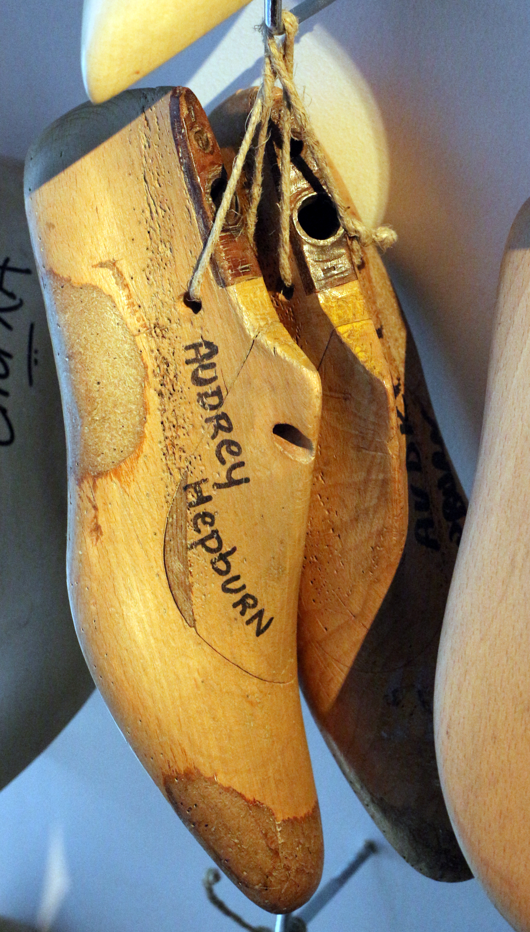 Museo Salvatore Ferragamo